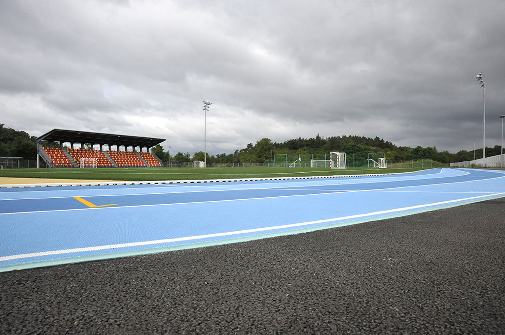 CESA - athletic stadium